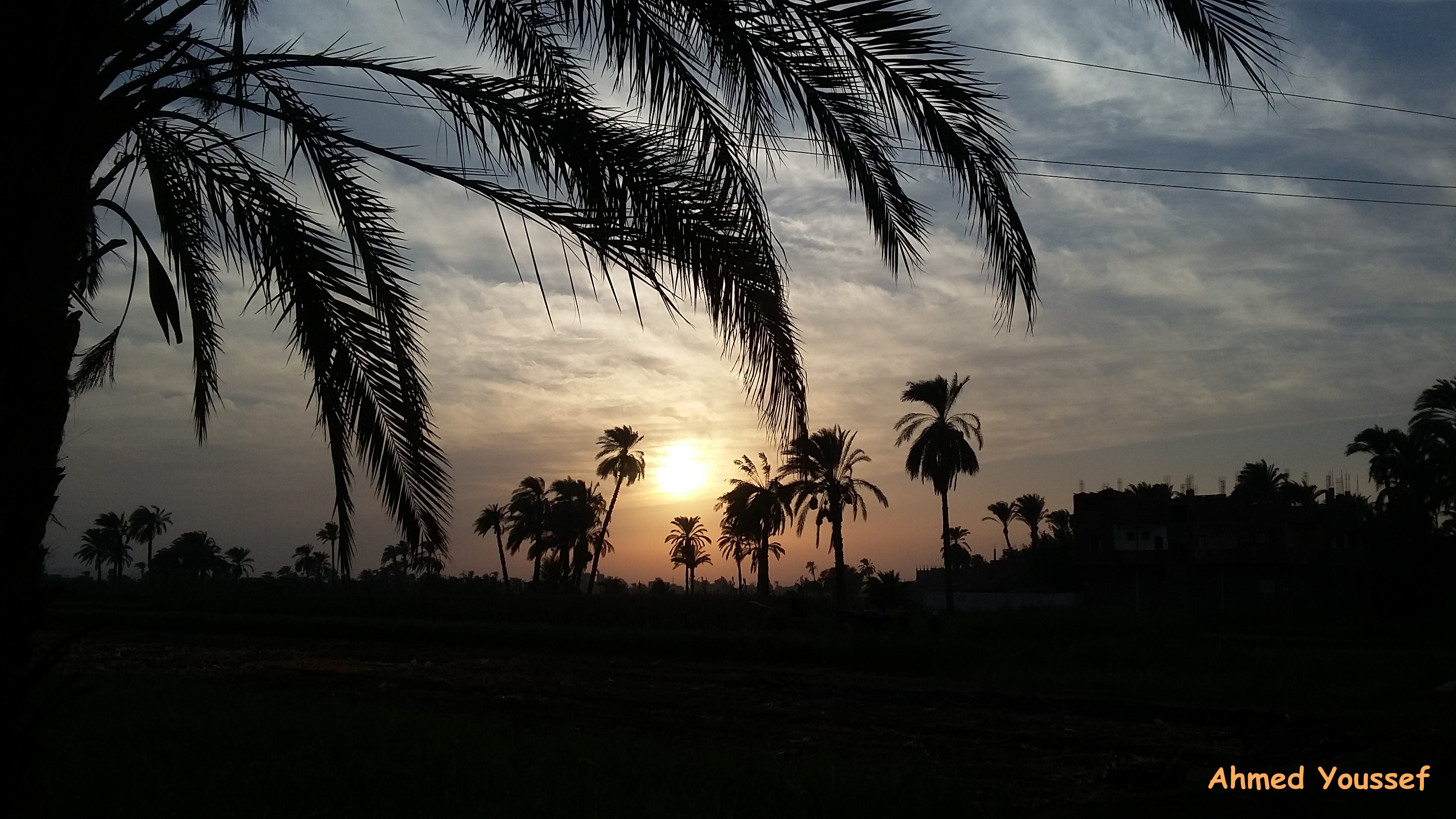 Sunset in Manqabad Upper Egypt